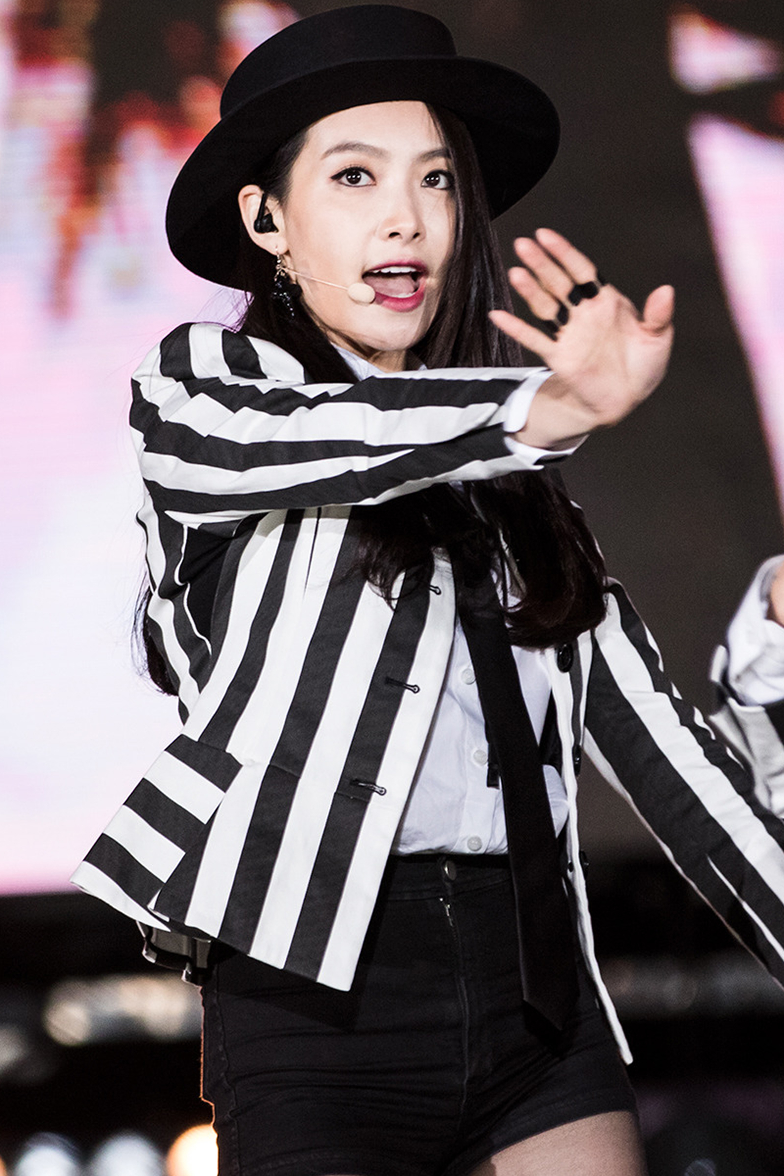 Victoria Song at Jeju K-Pop Festival on October 25, 2015.